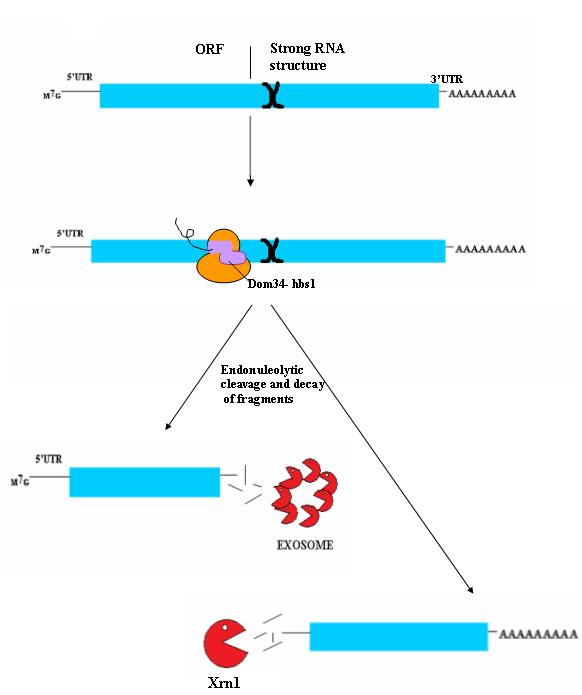 No go decay